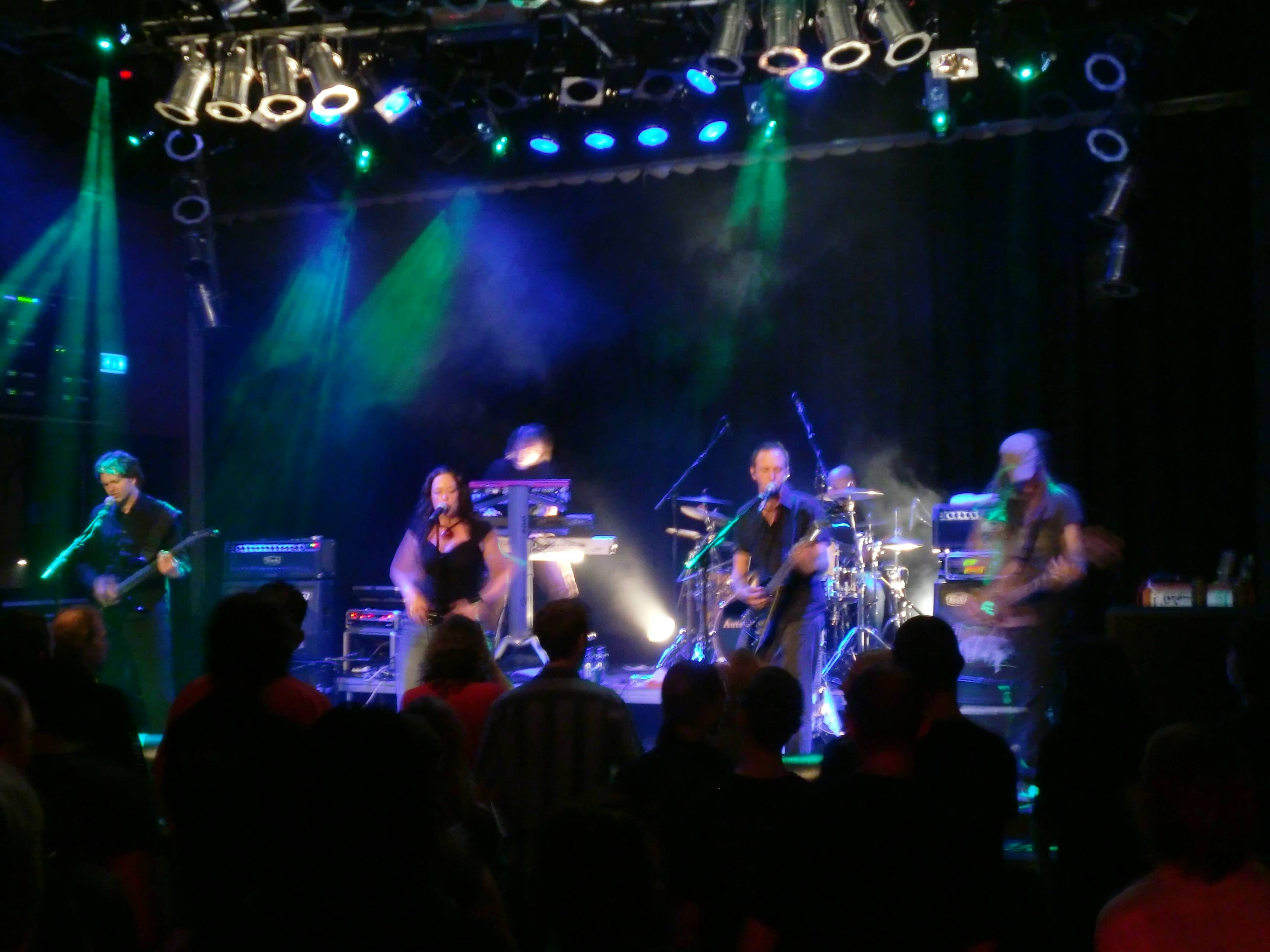 Autumn concert at Gigant, Apeldoorn, the Netherlands.